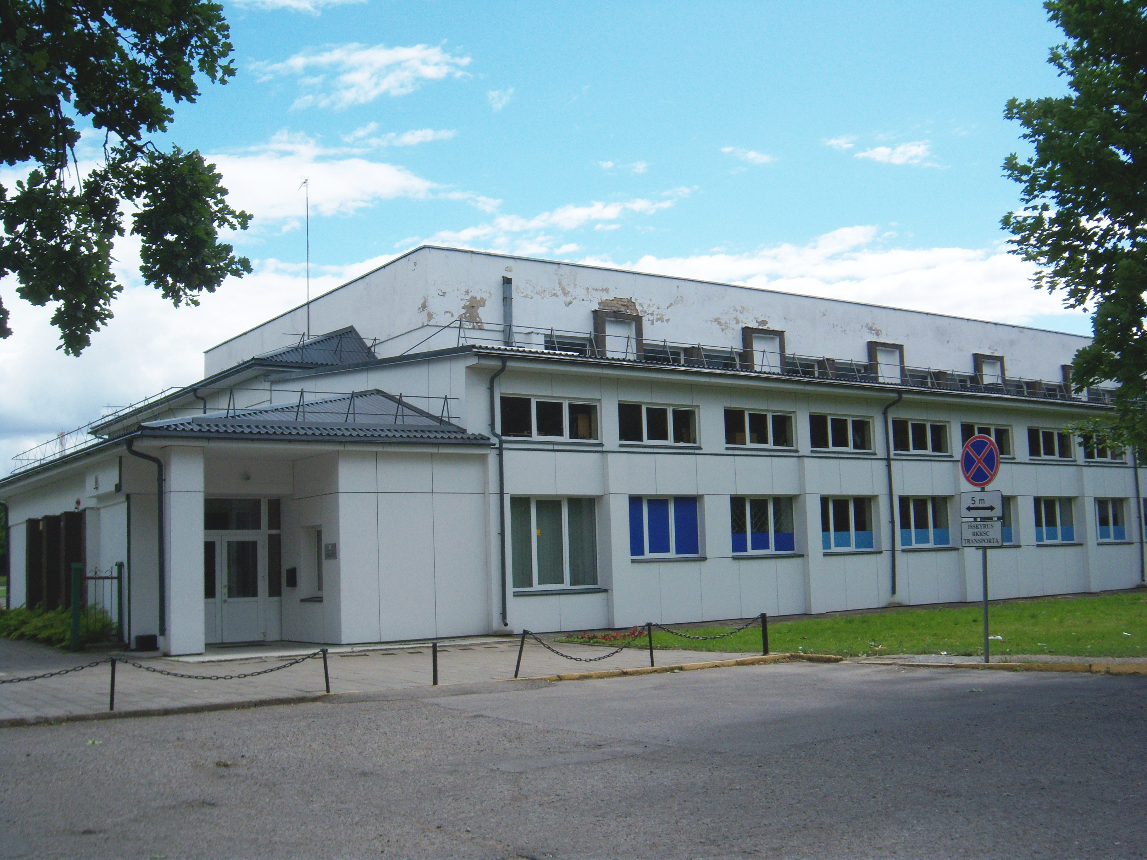 Physical Culture and Sports Centre, Raseiniai, Lithuania